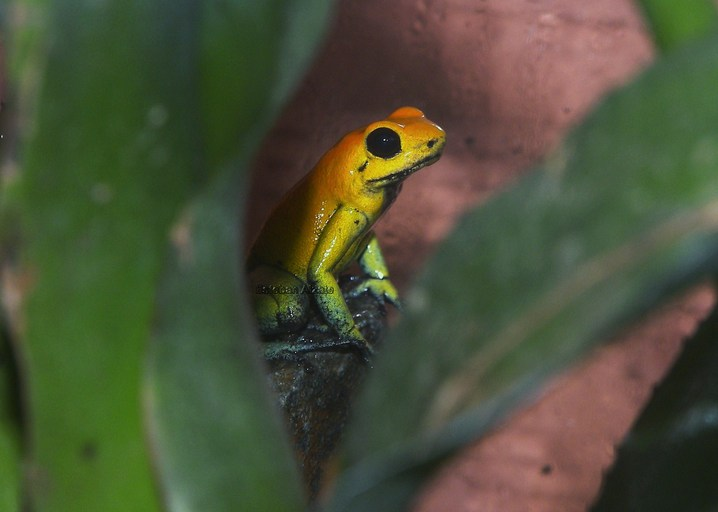 Phyllobates bicolor